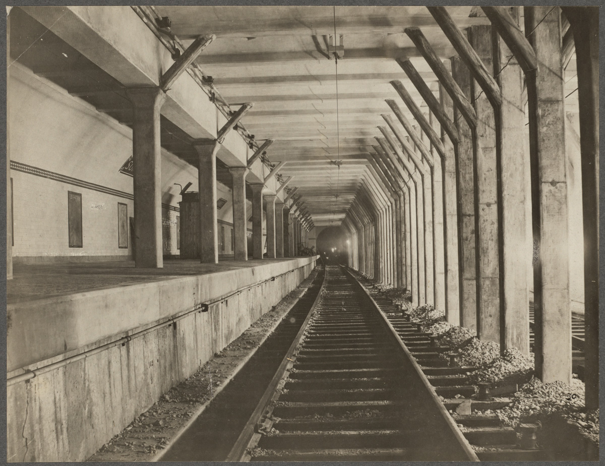 Summer Street station (now the northbound Orange Line platform at Downtown Crossing) in July 1908, five months before opening